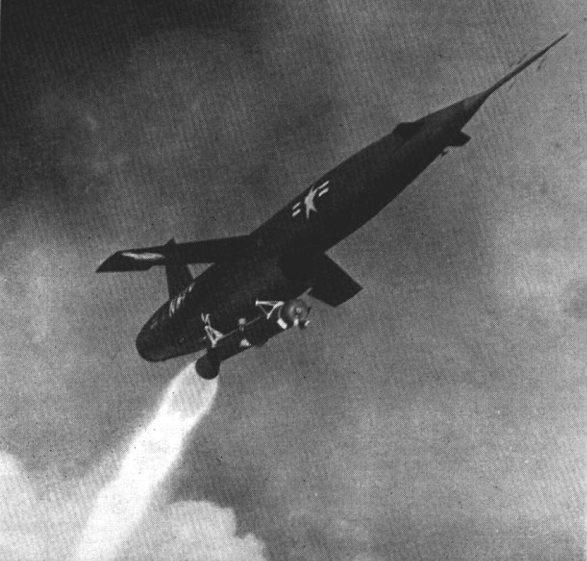 Launch of a U.S. Navy Vought SSM-N-9 Regulus II missile.